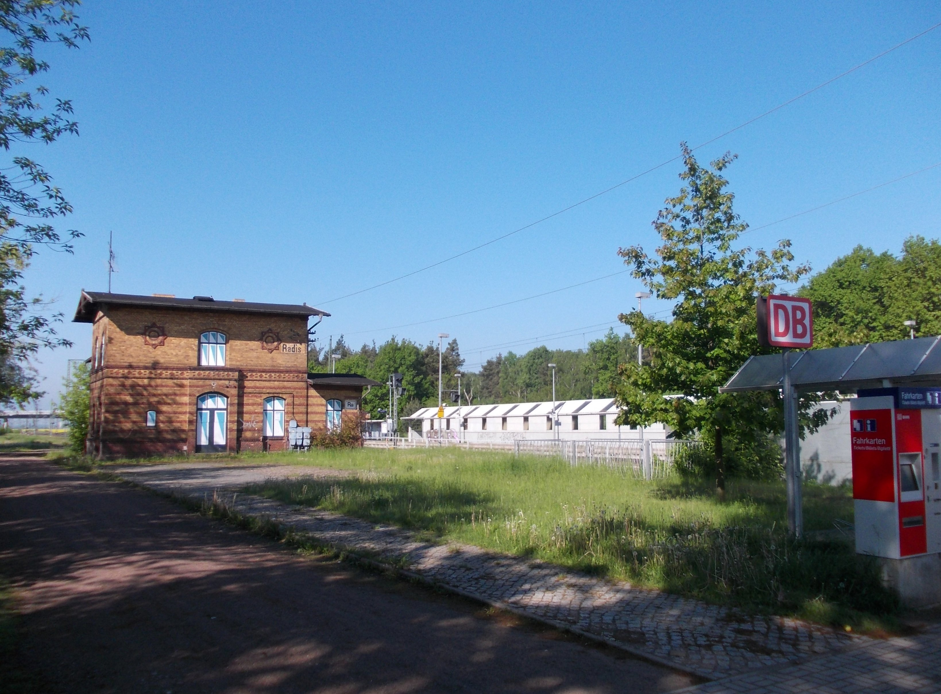 Radis train station (Kemberg, Wittenberg district, Saxony-Anhalt)